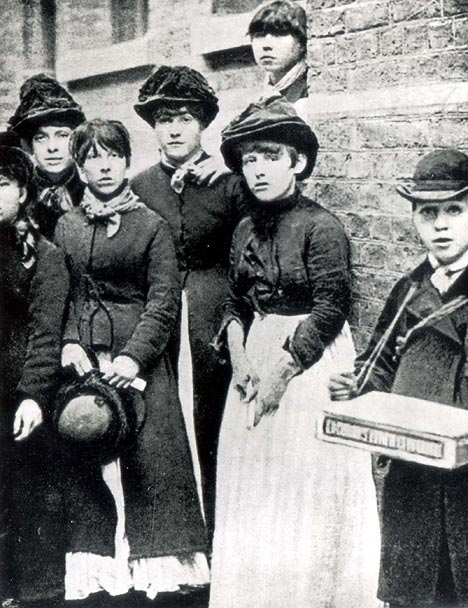 Photo of matchgirls participating in a strike against Bryant & May, London 1888